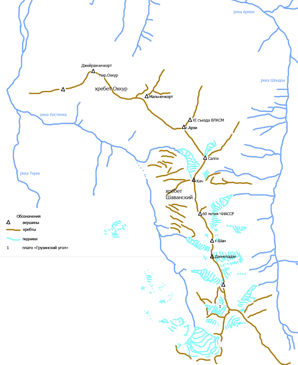 Ridges Ohcur, Shavanski lies in the Western part of the Lateral ridge of East Caucasus